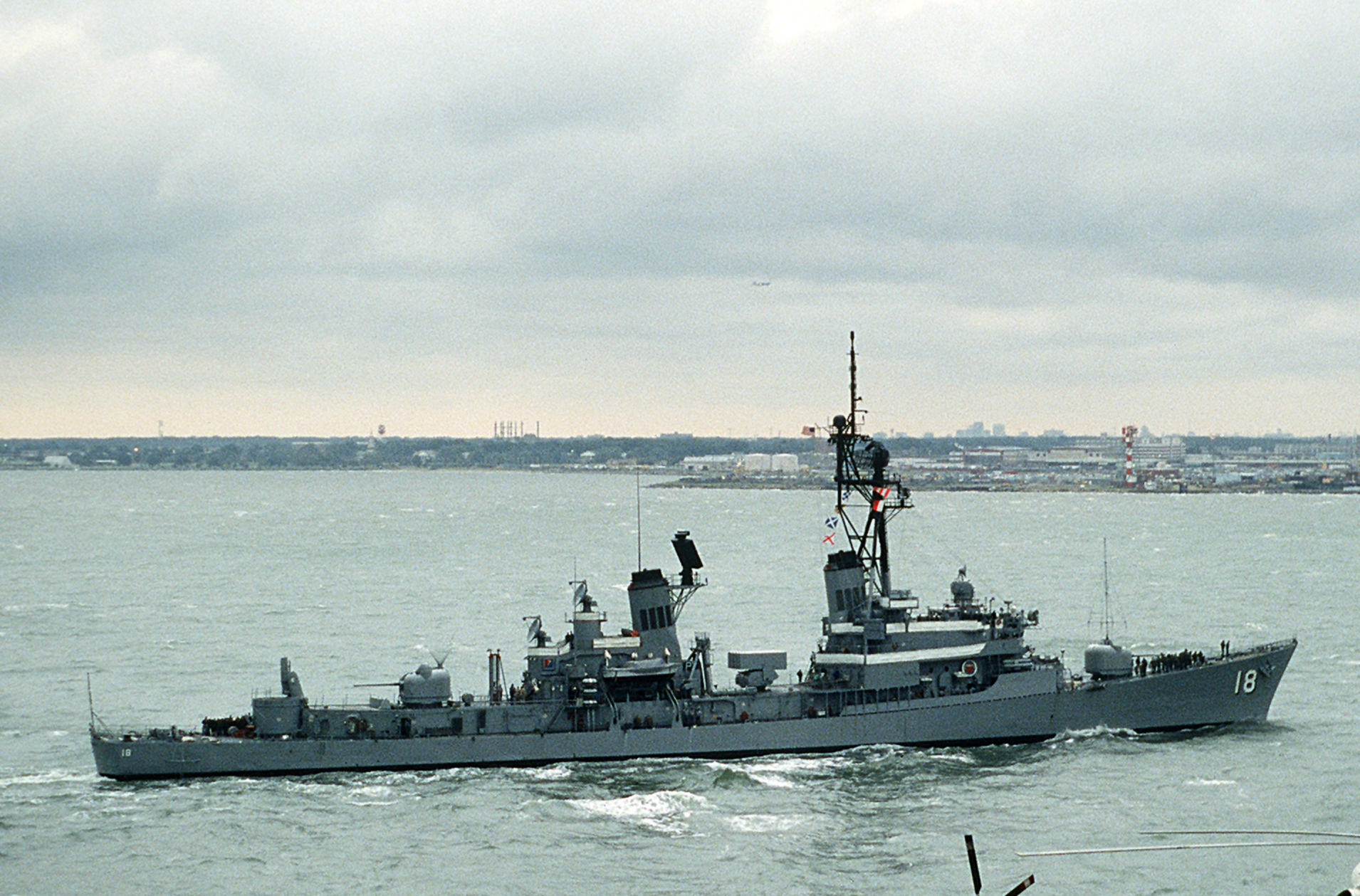 The U.S. Navy guided missile destroyer USS Semmes (DDG-18) passing close aboard the nuclear-powered aircraft carrier USS Dwight D. Eisenhower (CVN-69), Hampton Roads (USA).